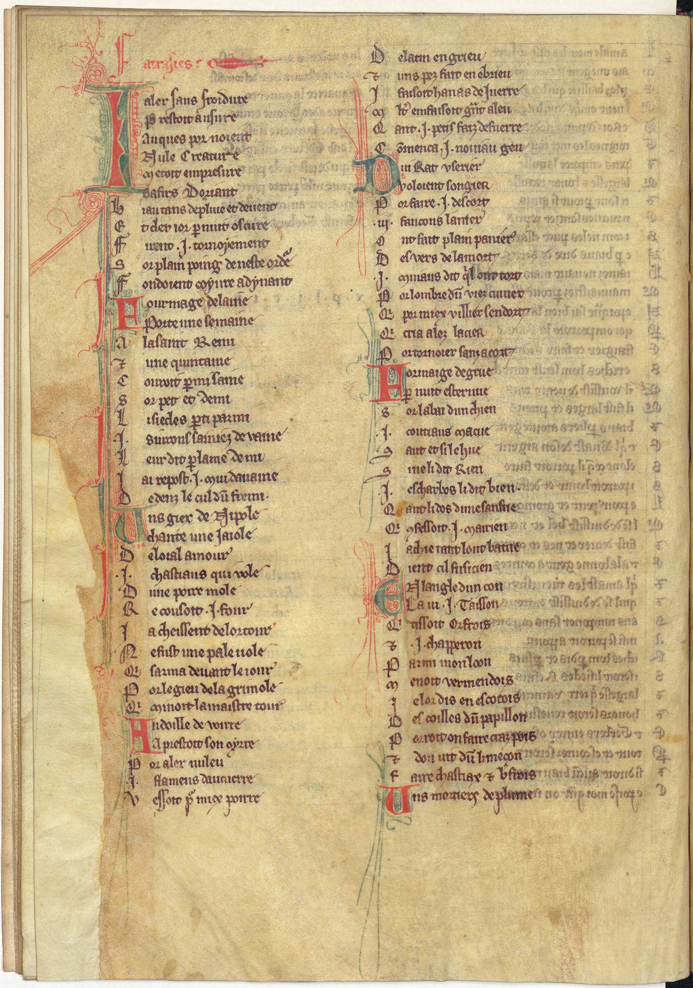 Page of a 13th-century manuscript with fatrasies.